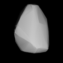 3D convex shape model of 759 Vinifera, computed using light curve inversion techniques. J. Hanuš, J. Ďurech, M. Brož, B. D. Warner (June 2011). "A study of asteroid pole-latitude distribution based on an extended set of shape models derived by the lightcurve inversion method". Astronomy and Astrophysics 530: A134. ISSN 0004-6361. arXiv